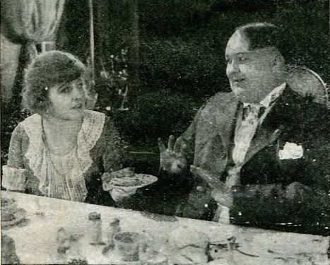 Still from the American silent film A City Sparrow (1920), page 31 of the January 1921 Film Fun. In the film Milly West (Ethel Clayton), a cabaret dancer becomes injured, and after a surgeon says she cannot become a mother, she gives up on love. Tim (Walter Hiers) loves her and after she rejects him, writes his mother in the country that he has killed himself. David (Clyde Fillmore), a man from the country takes her there to recover and later wins her over. Still 1: "Milly, a cabaret dancer, offers Tim her pie at a theatrical boarding house."